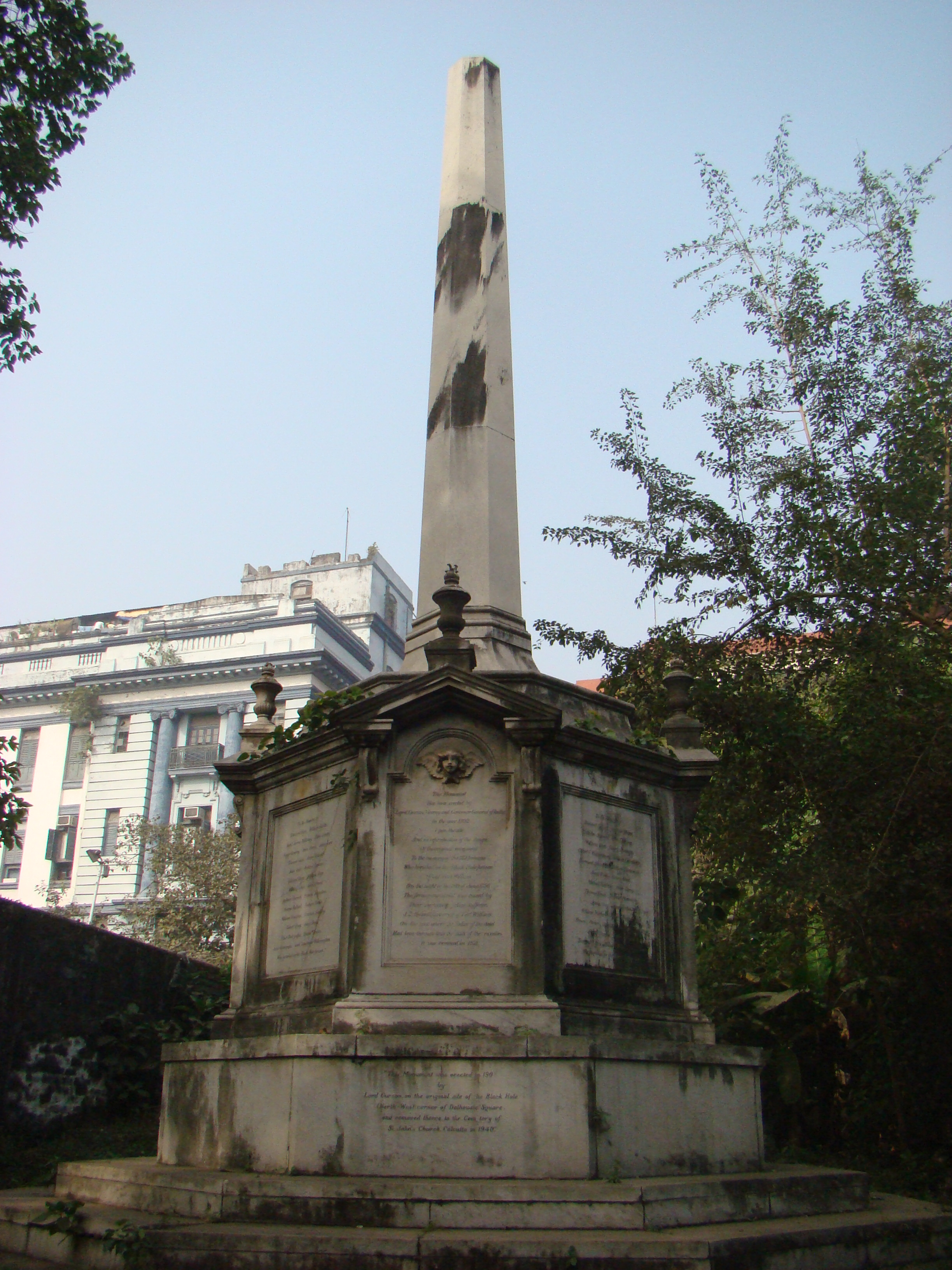 Wikimedia Photowalk - Kolkata 2011-12-18